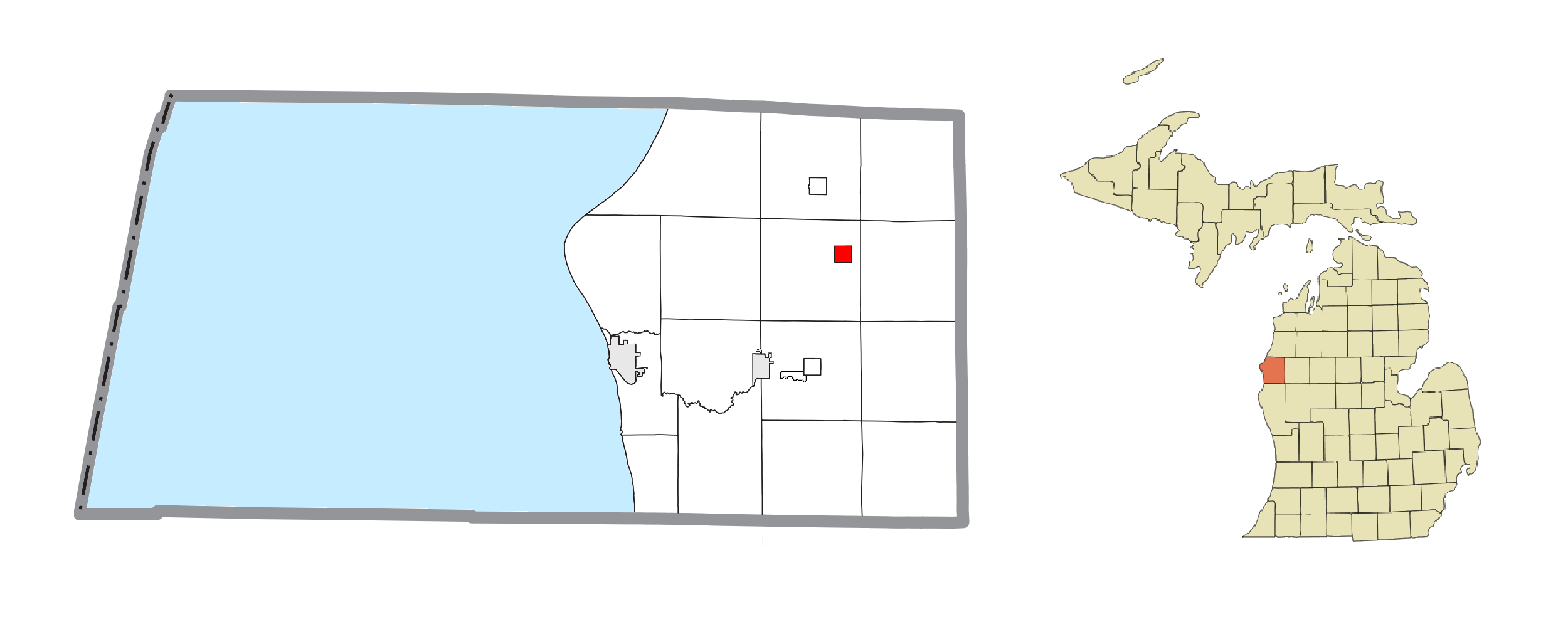 Fountain, MI